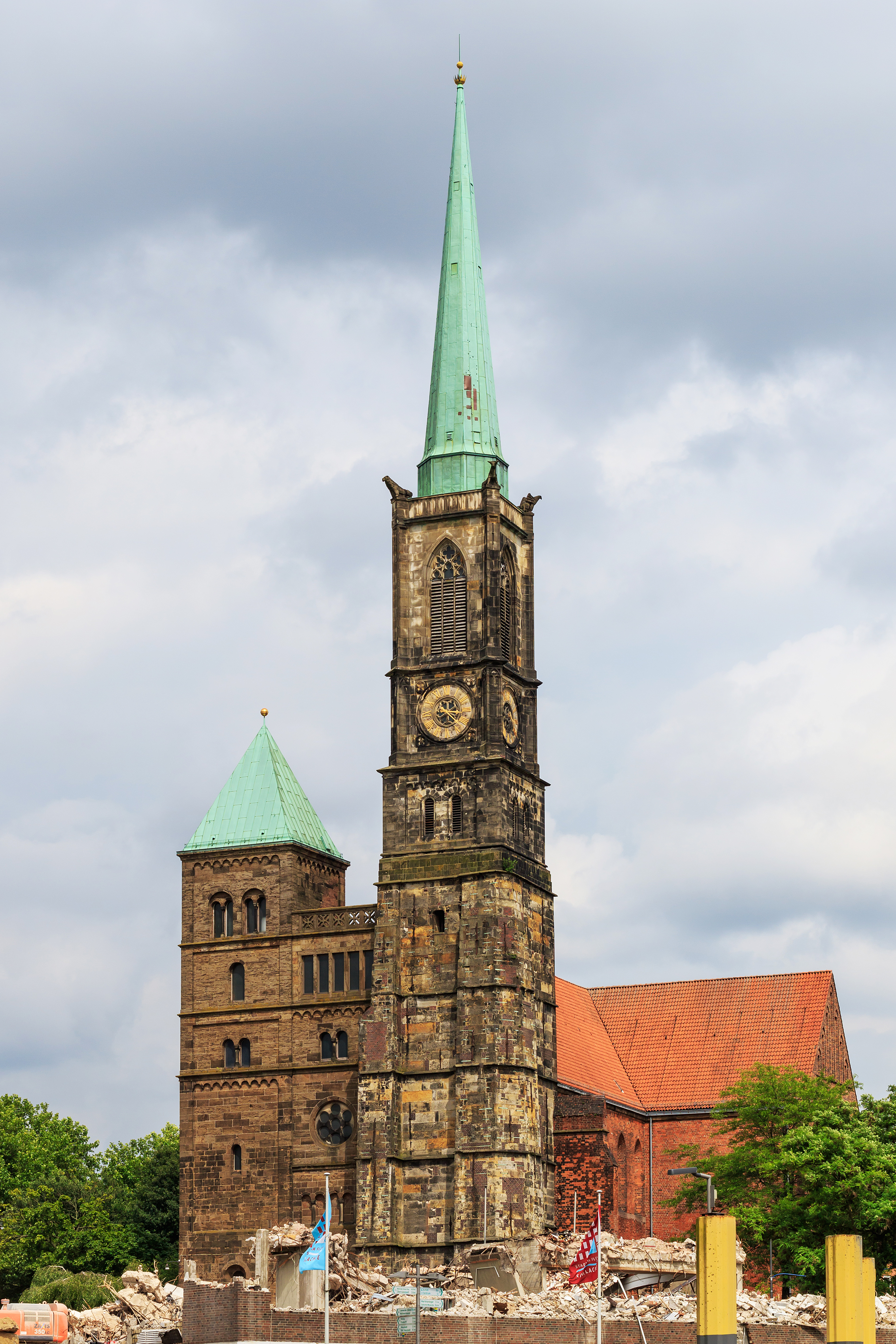 Church of St. Stephen in Bremen, Germany